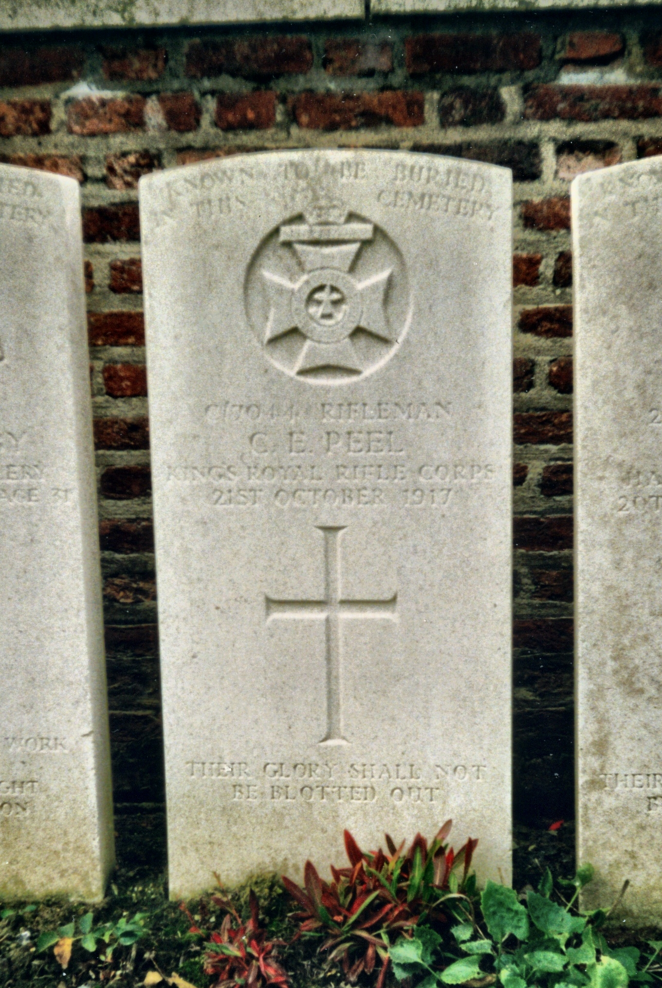 Larchwood (Railway Cuttings) Cemetary, Flanders, Belgium. The gravestone of C/7044 Rifleman C E Peel, the uncle of the modern-day British writer Alan Bennett, one of the UK's "national treasures". He immortalised his late uncle in a radio monologue "Uncle Clarence". Photograph by User:Redvers originally from wikipedia, now transferred to Commons. Note that the photograph has been altered by the author since the original upload and that the licence status has changed from Own Work GDFL to the more explicitly free Own Work Public Domain All Rights Released.